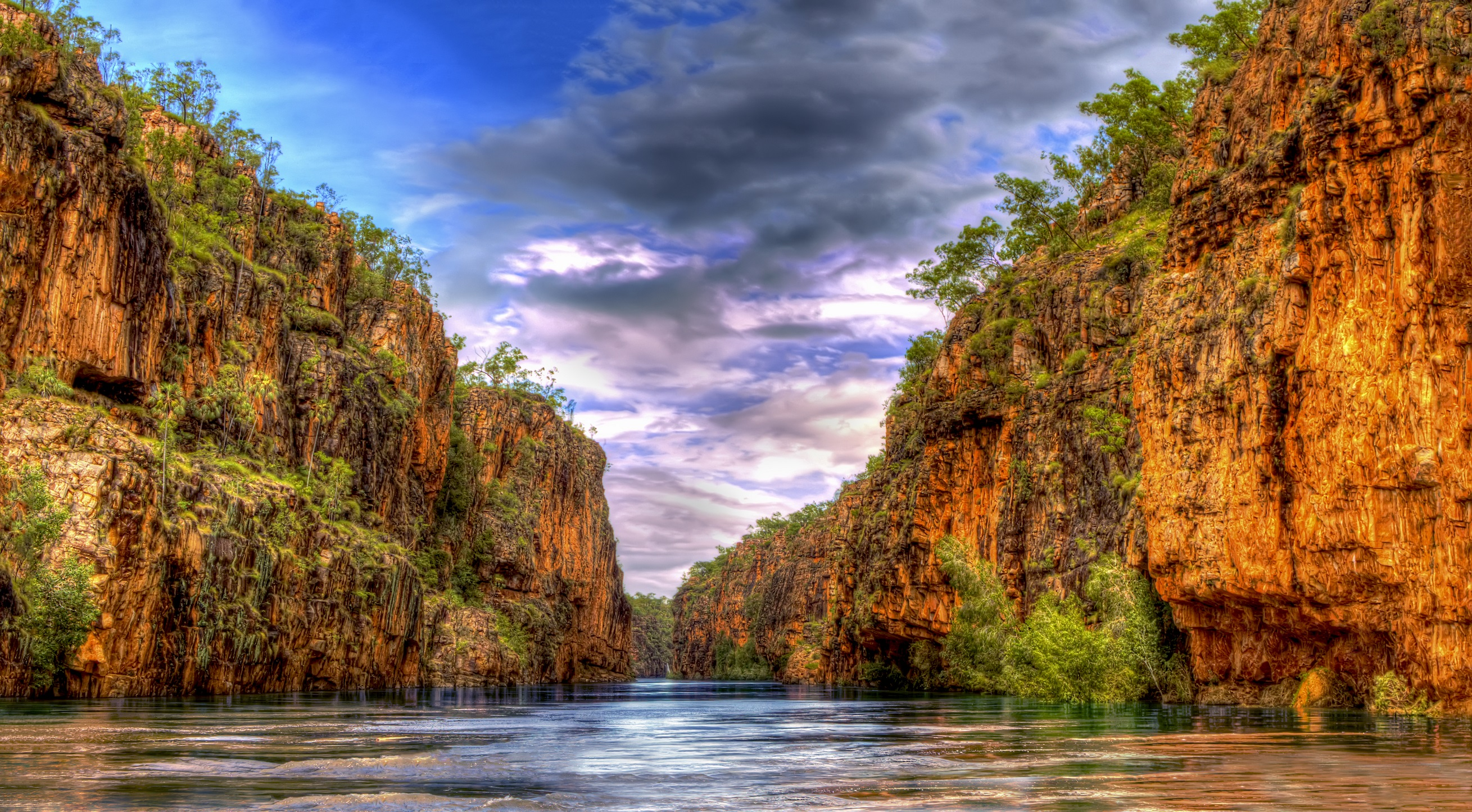 The fabled Nitmiluk Gorge home to the indigenous peoples of this region for more than 40,000 years